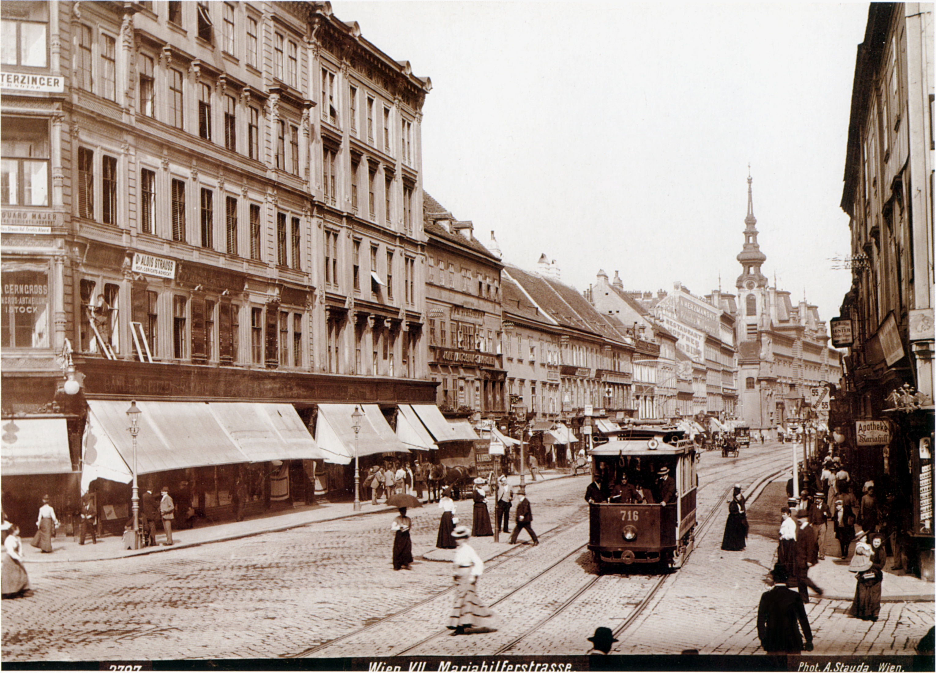 Mariahilfer Straße in Vienna, close to Mariahilfer Church, view towards Stiftskirche